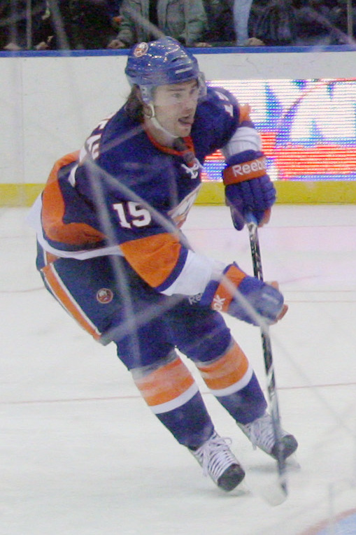 P. A. Parenteau scores on Marc-André Fleury